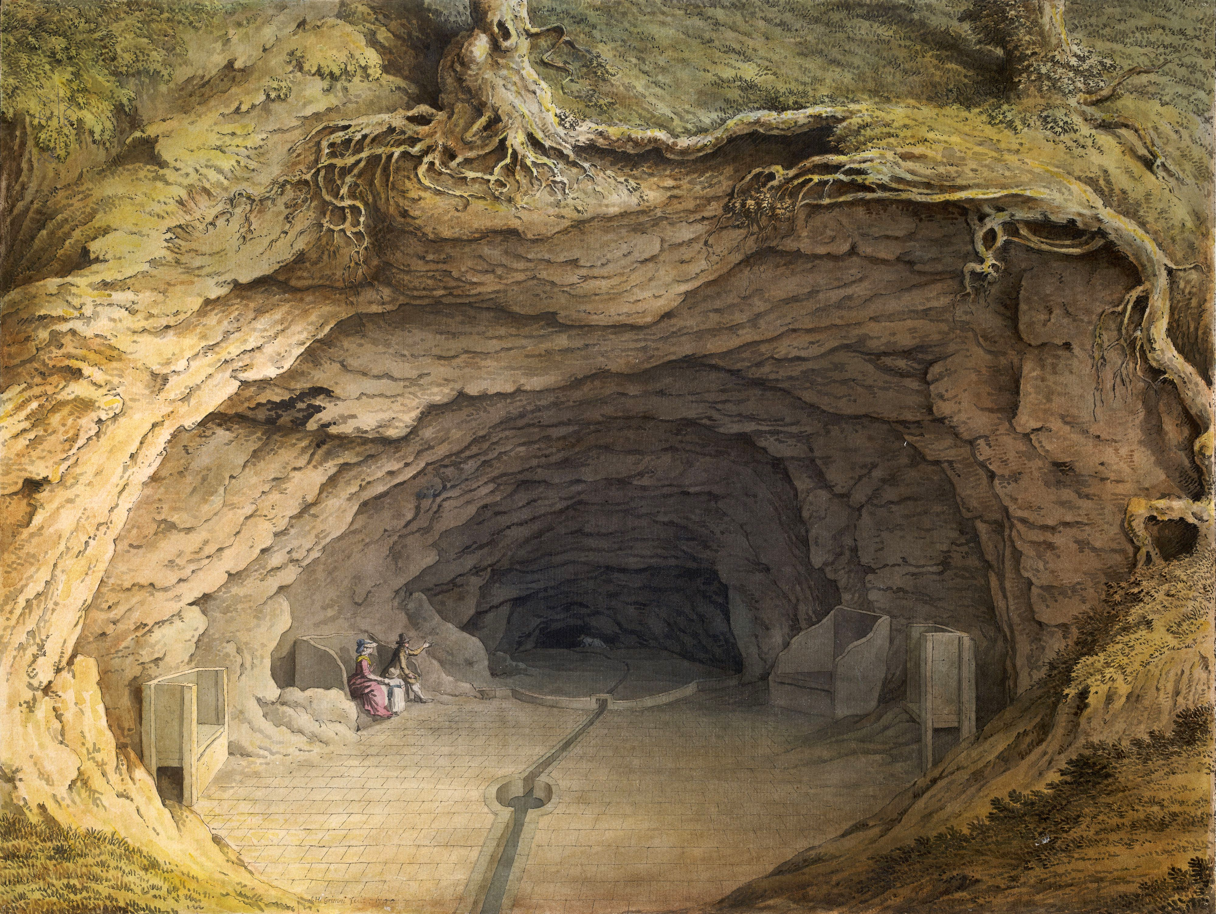 in Moor Park. View of a cave near Farnham which was the home of a 17th century woman known as Mother Ludlene, also known as the White Witch of Ludlene.